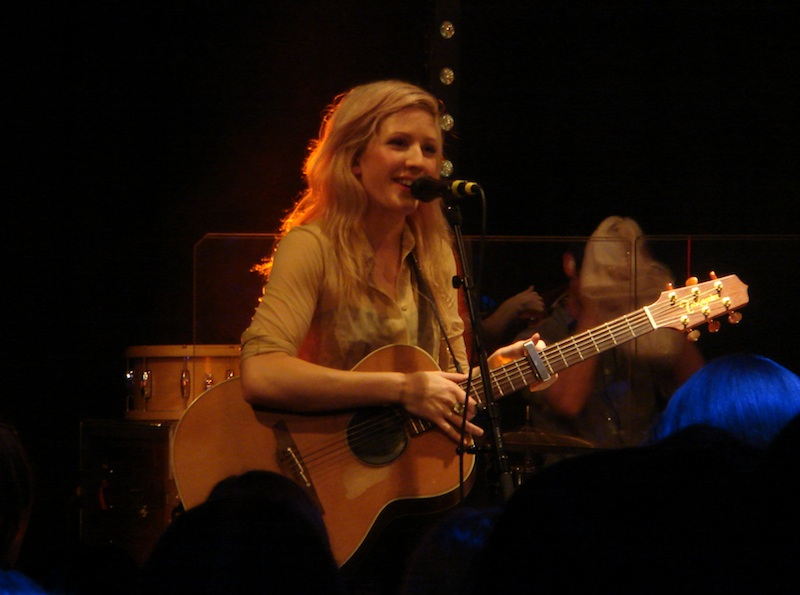 Ellie Goulding at Lights Showcase in Desmet Studios Amsterdam, The Netherlands 17 September 2010